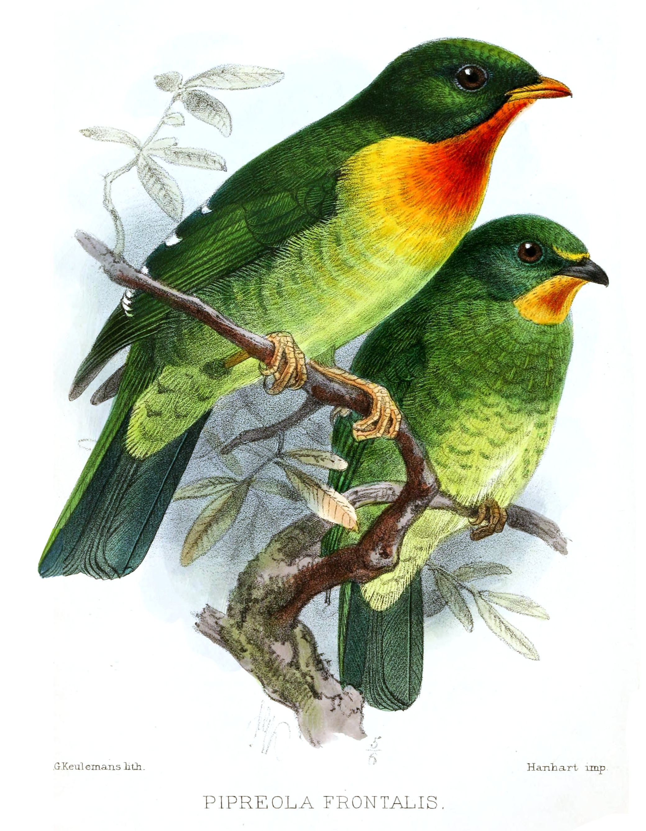 « Pipreola frontalis » = Pipreola frontalis (Scarlet-breasted Fruiteater)